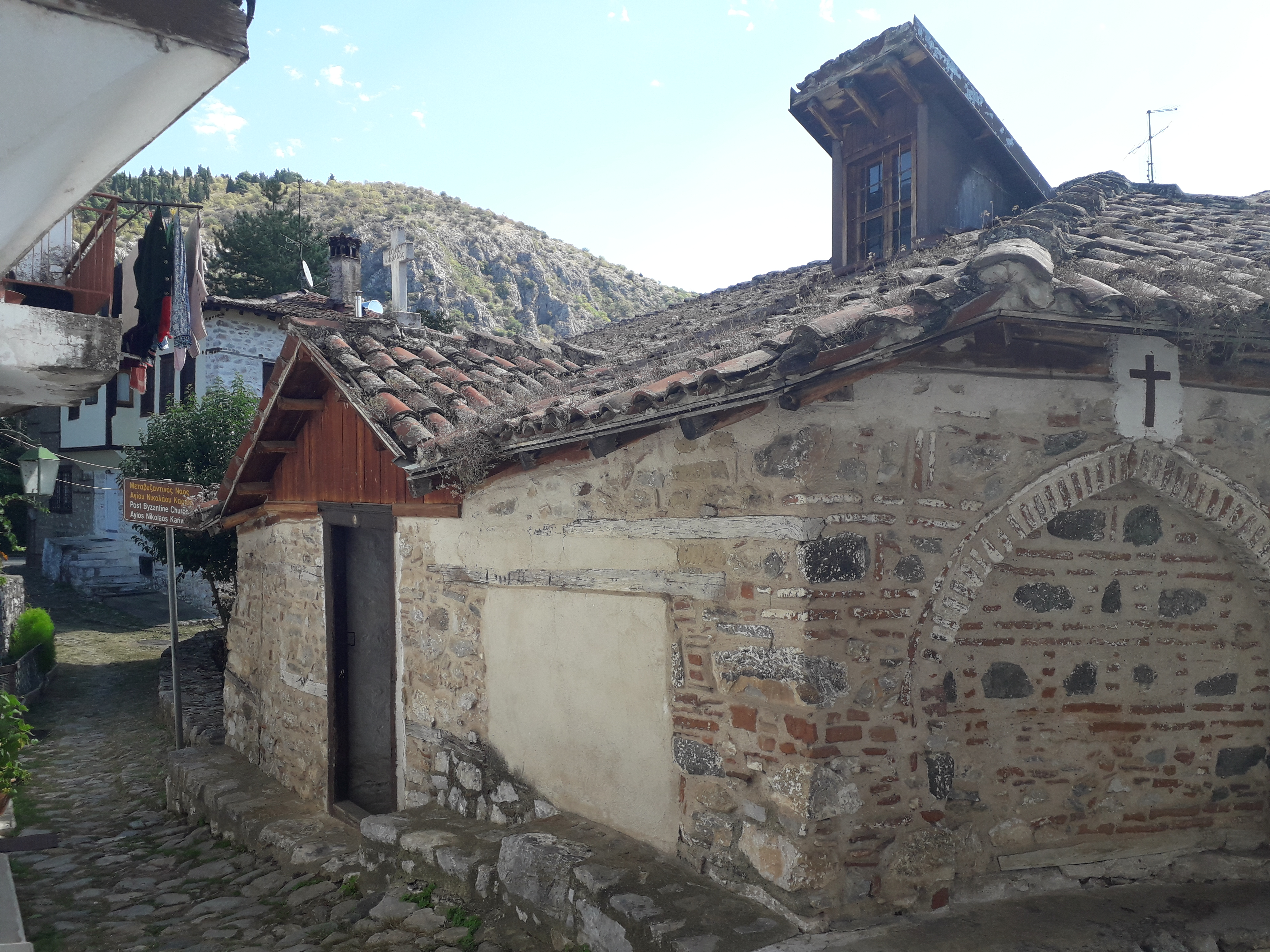 St. Nikolaos Karavida, Kostur